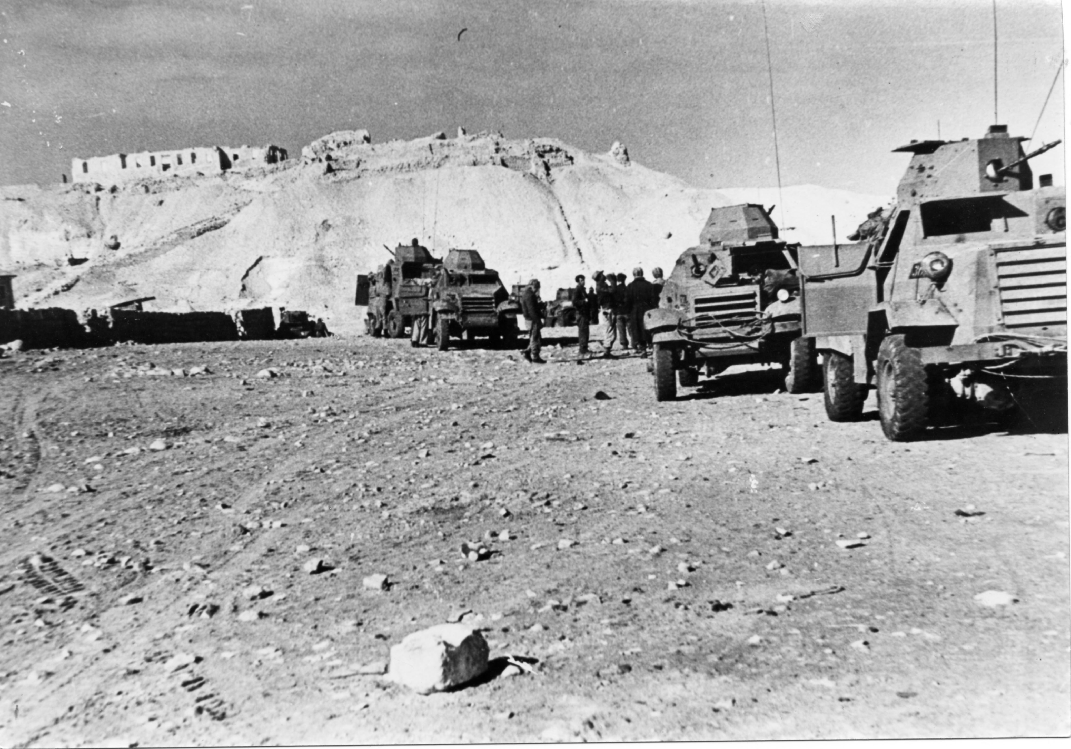 The Palmach, Israel Defense Forces